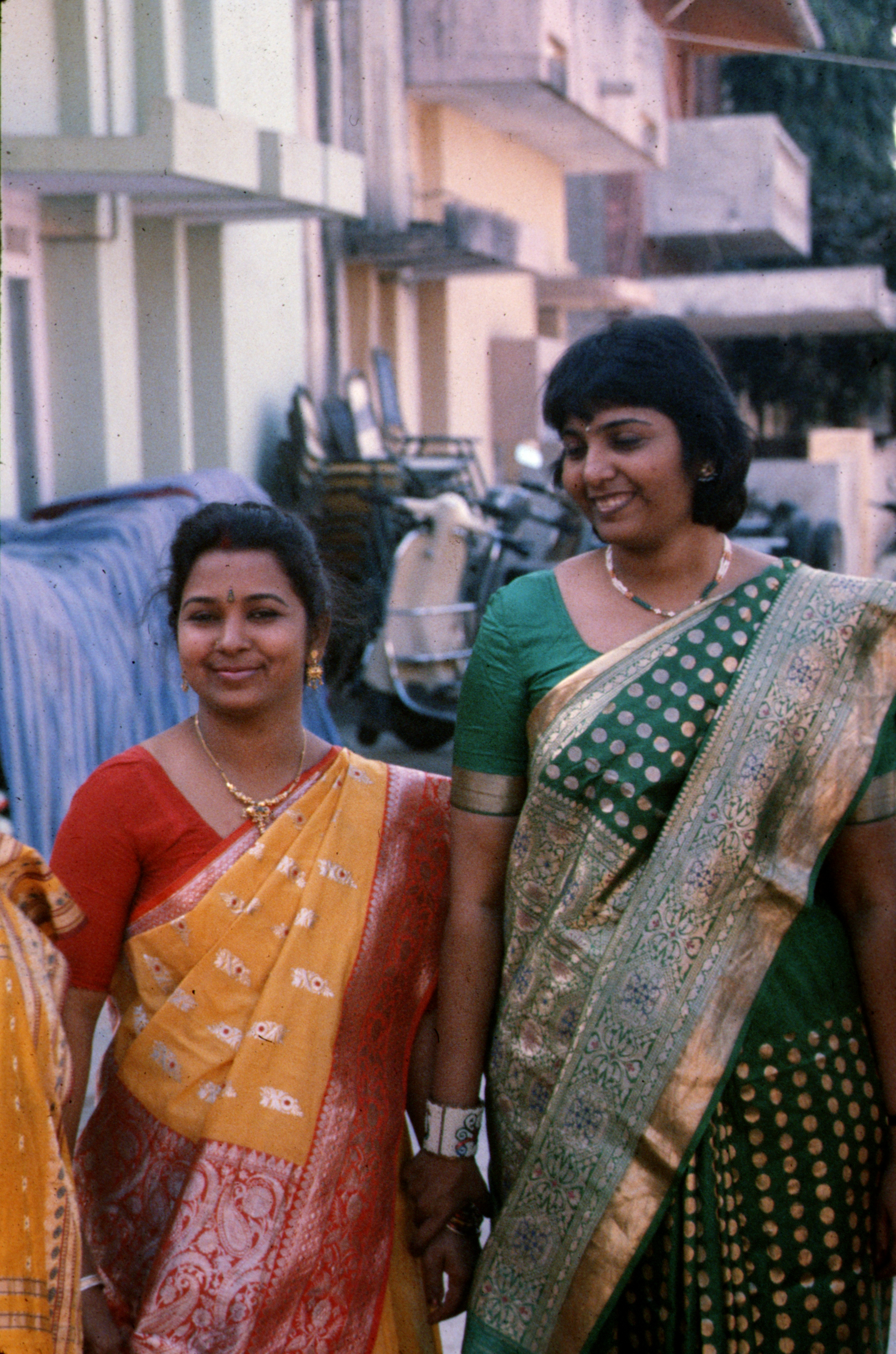 Women in sari during a wedding, Ahmedabad, Gujarat